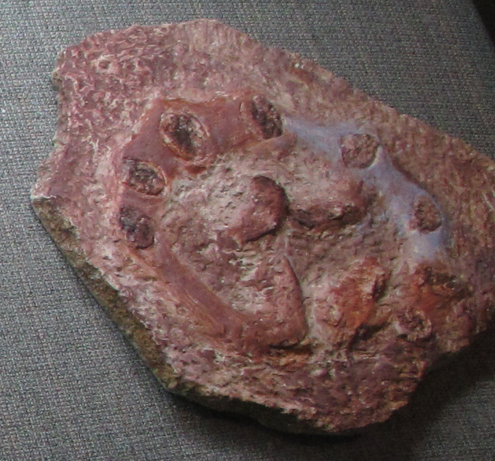 Microdictyon sinicum - Chongqing Beibei Museum